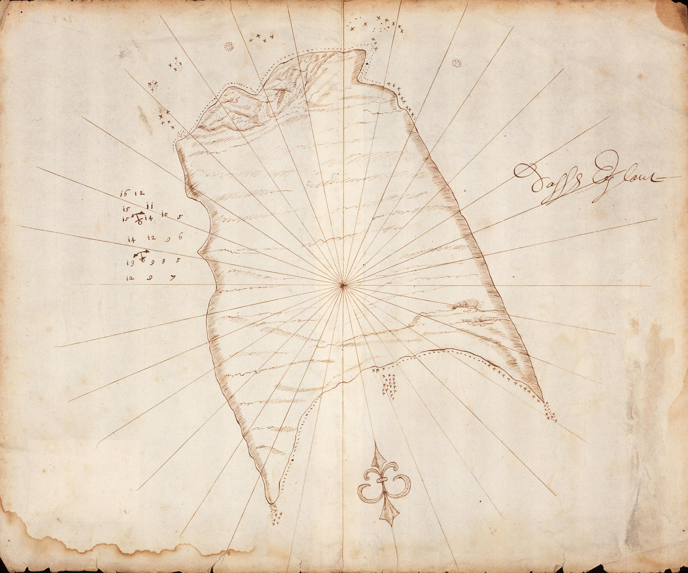 Title in Leupe catalogue (National Archives): Kaartje van het Dassen Eyland. Tears and moisture stains, particularly along the bottom edge. Notes on reverse: Kaarten en plans van de Kaap de Goede Hoop uit Brieven en papieren van de Kaap. Deel II 1654 / 208 [folio number in the file ?] / 189 [in red pencil].